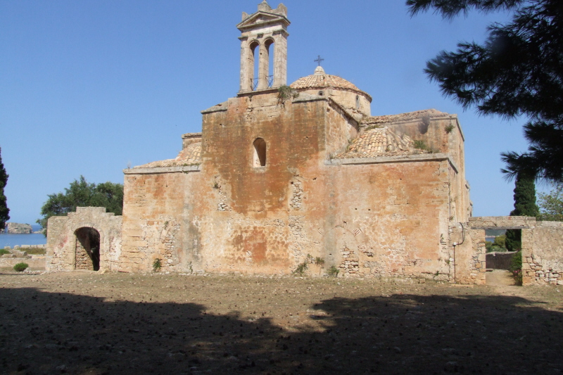 Curch within the fortress of Pylos